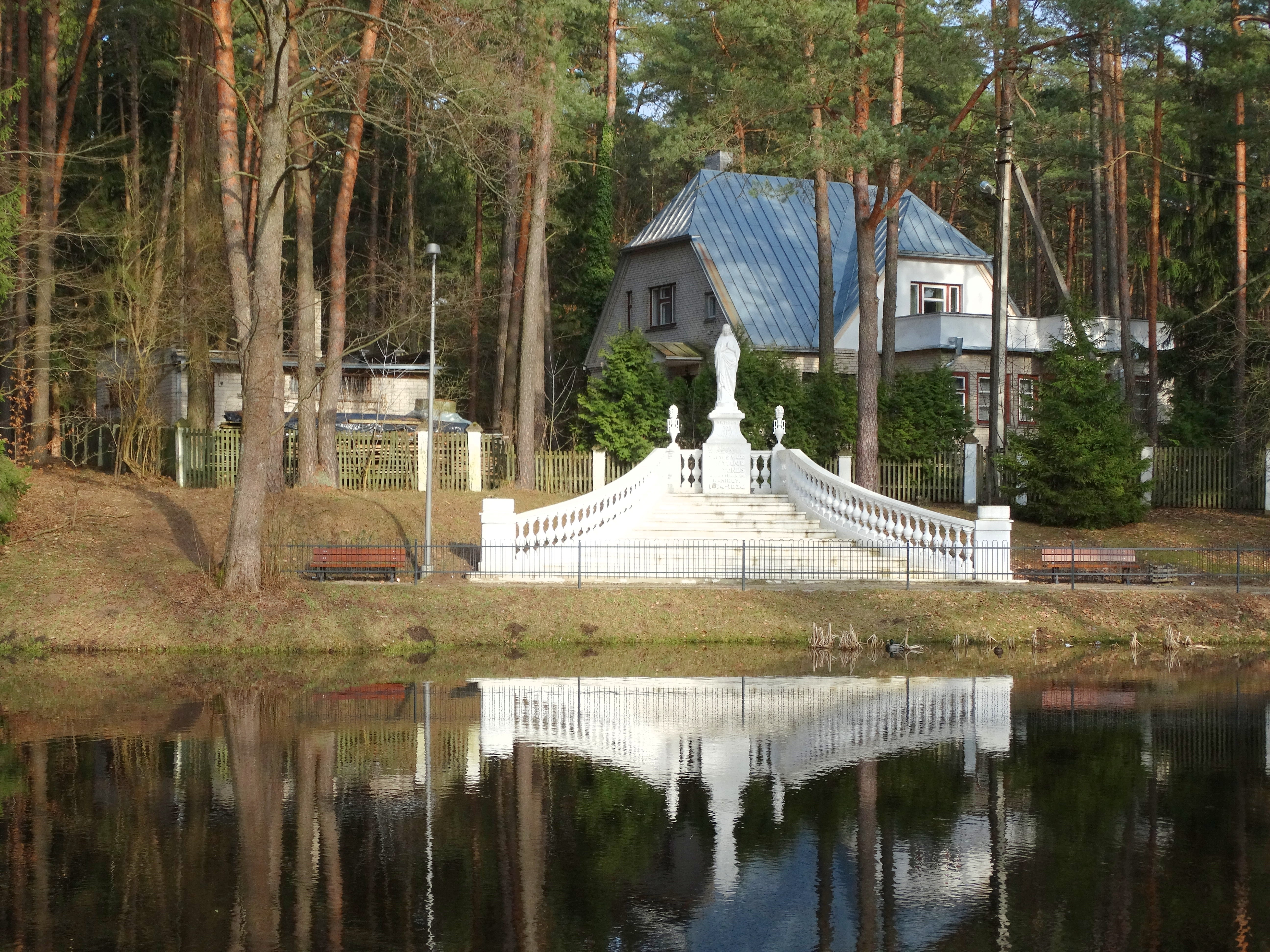 Statue of Virgin Mary, Kulautuva, Kaunas district. Lithuania